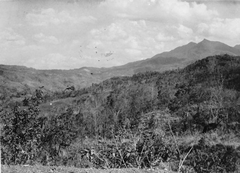 The War in the Far East- the Burma Campaign 1941-1945 The Battle of Imphal-Kohima March - July 1944: General view of the terrain at Kohima.